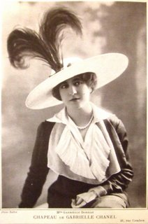 Mlle Gabrielle Dorziat wearing one of Chanel's first hats. Photograph by Talbot.